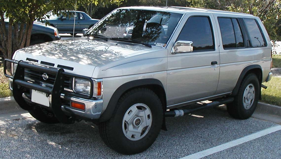 1986-1995 Nissan Pathfinder photographed in USA.